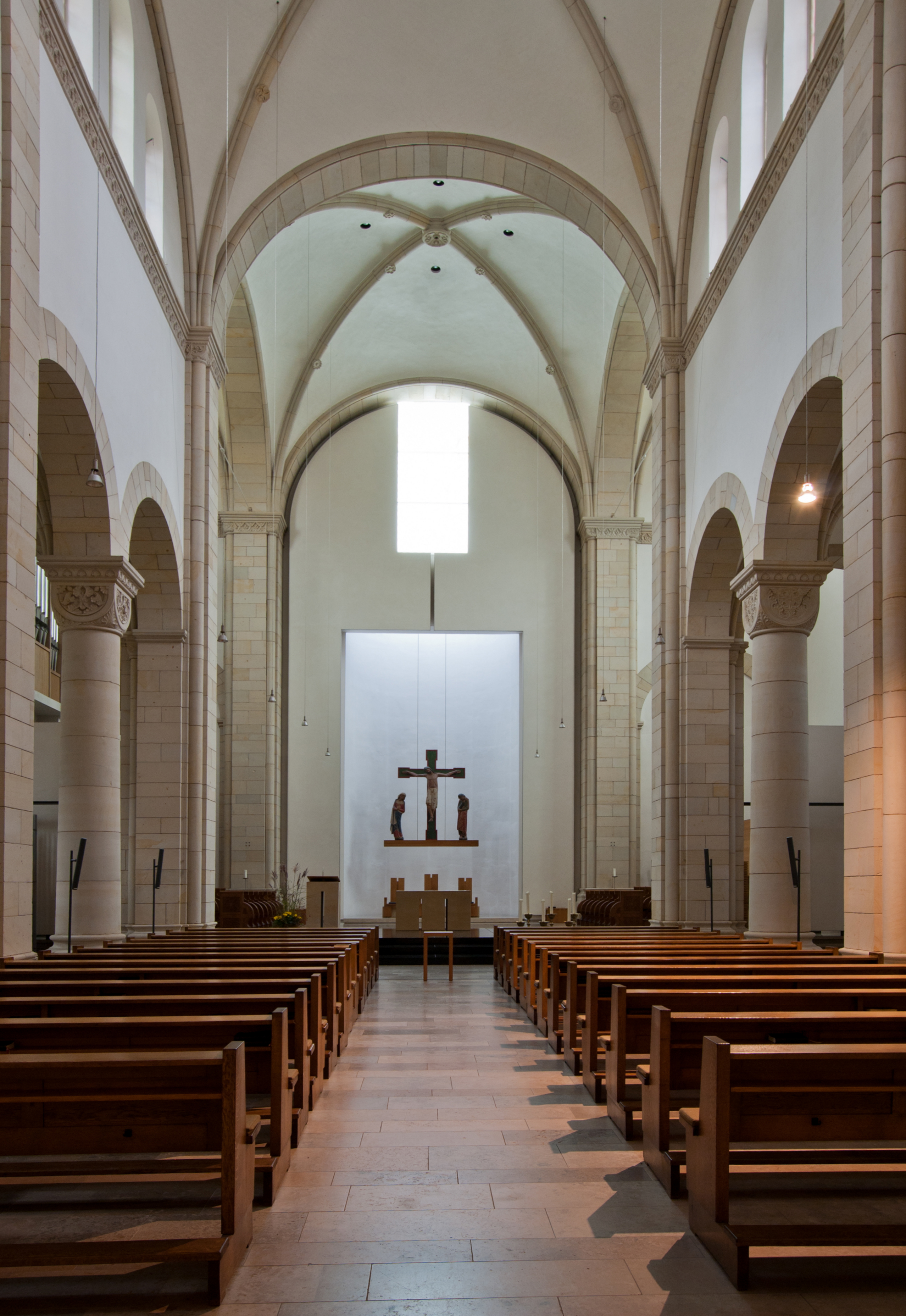 Billerbeck (North Rhine-Westphalia, Germany) – Gerleve Abbey – monastery church – interior, view through the central nave to the choir